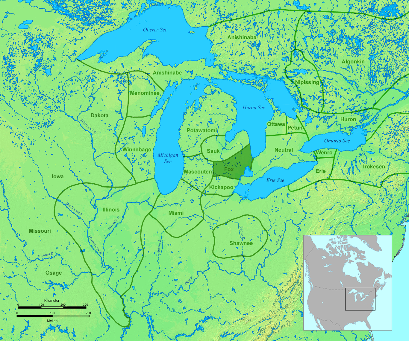 Tribal territory of Fox about 1650